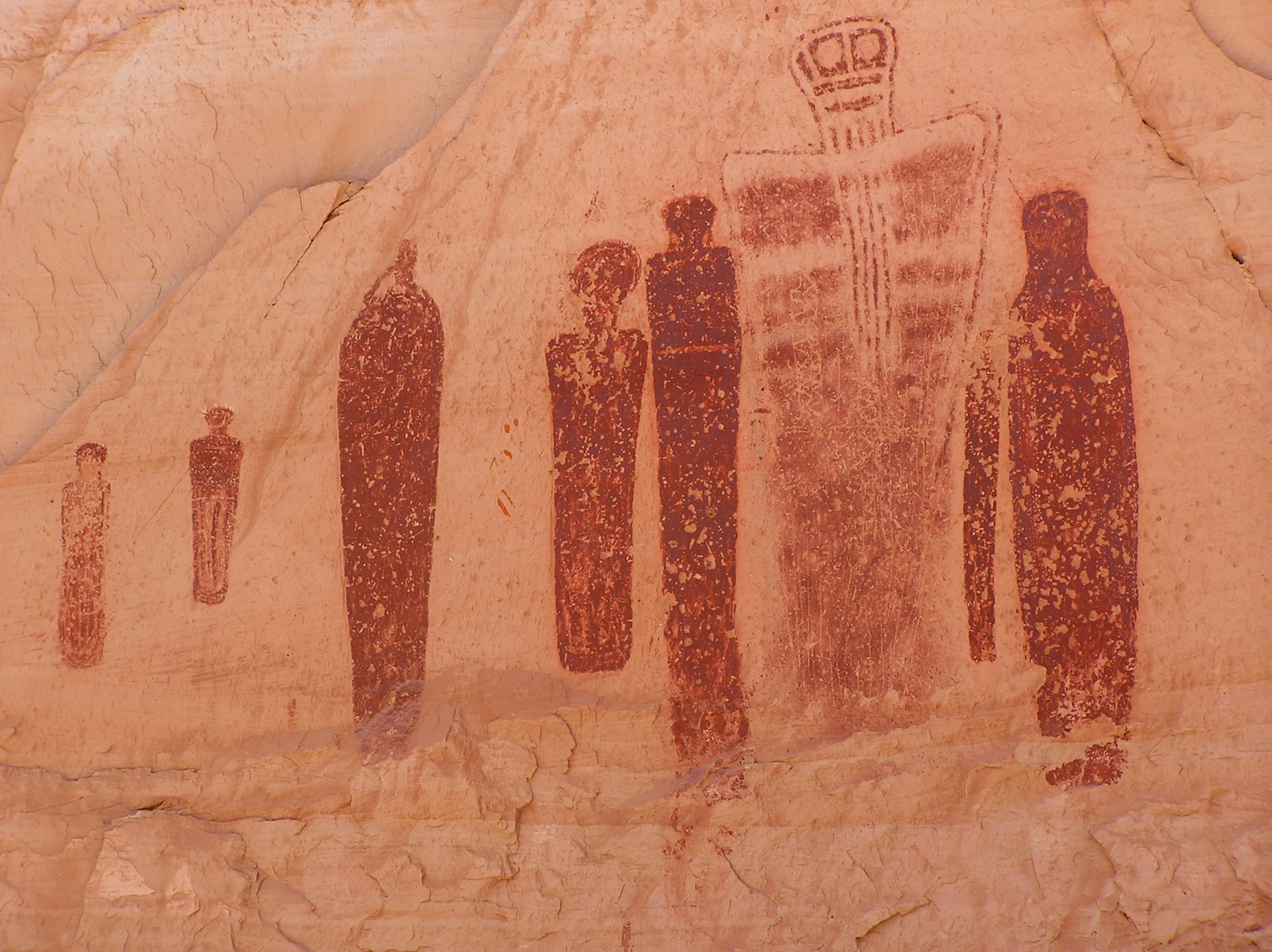 This portion of the Great Gallery, found in Horseshoe Canyon, is an example of a Barrier Canyon Style pictograph (painted rock art). The full panel is 200 feet long, 15 feet high and the paintings are life-sized human figures. The largest figure pictured is about 7 feet tall. Horseshoe Canyon, also known as Barrier Canyon, is a detached part of Canyonlands National Park in Utah, west of the Green River, and north of the National Park's Maze unit.